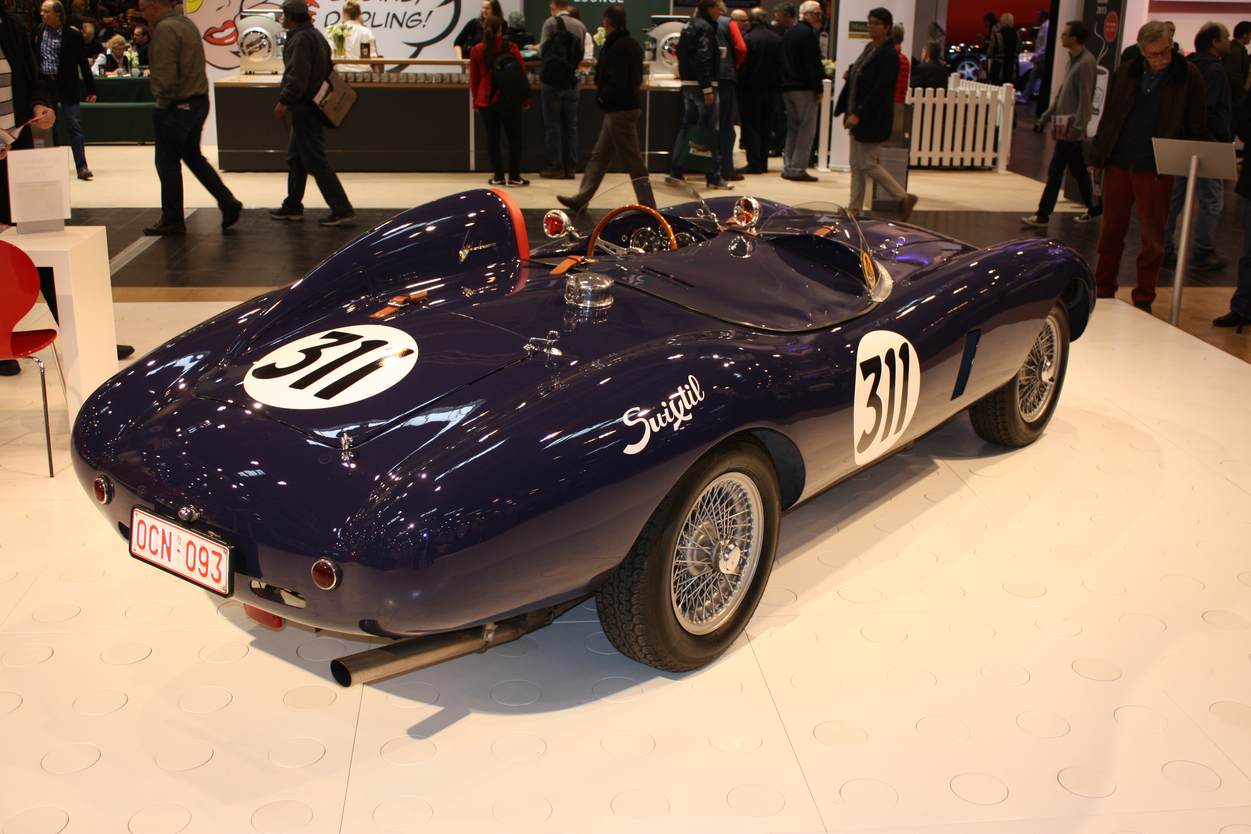 Ockelbo-Volvo, based on Austin Healey chassis, engine: Volvo B18B, 1953, seen at Techno Classica, Essen, Germany